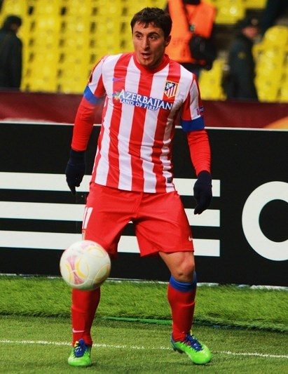 Cristian Gabriel Rodríguez